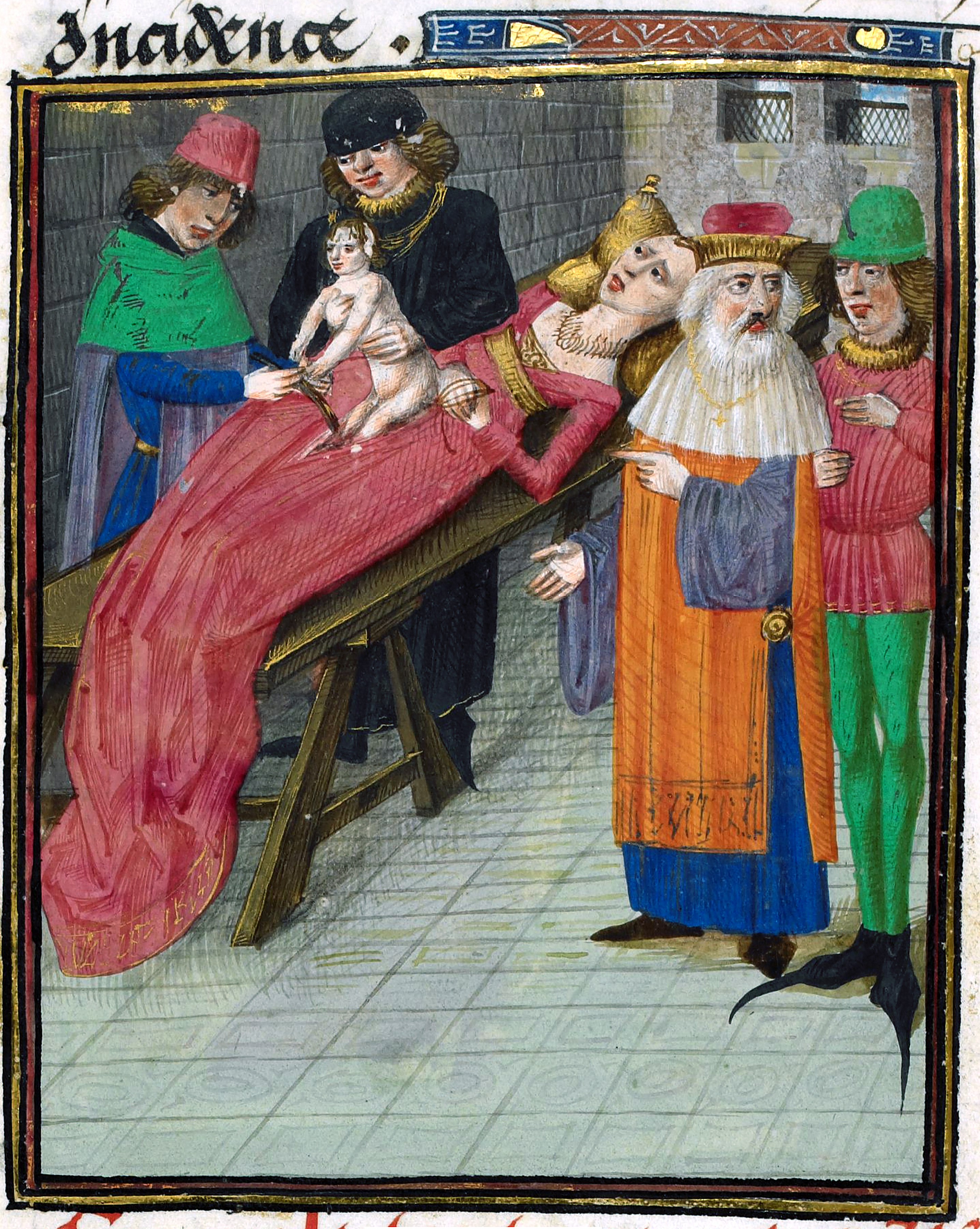 Medieval depiction of Caesarian birth